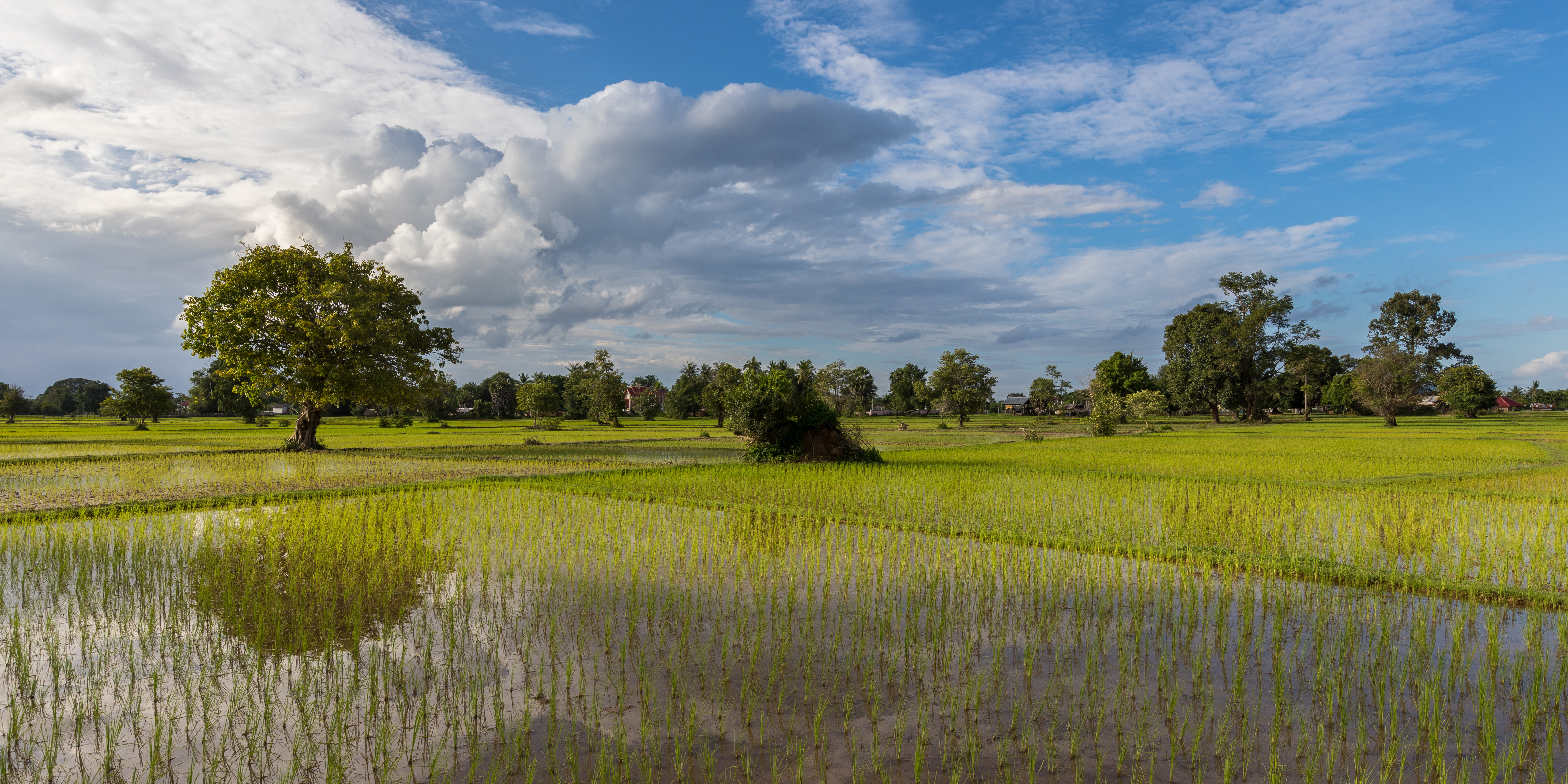 Sunny green paddy fields of Don Det (Laos), with a tree reflecting in the water, under a cloudy sky in July 2018 during the monsoon